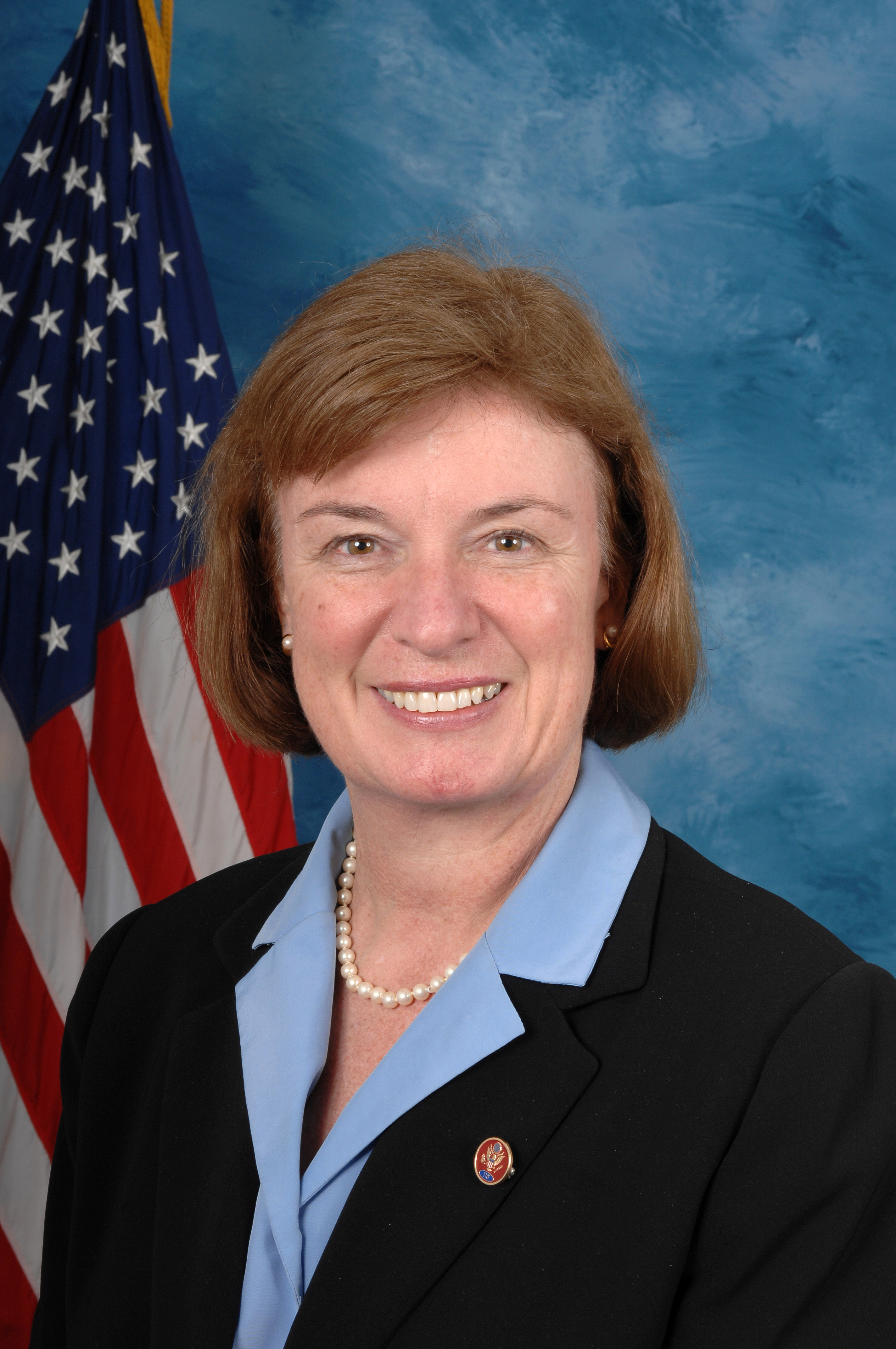 Carol Shea-Porter, member of the United States House of Representatives.